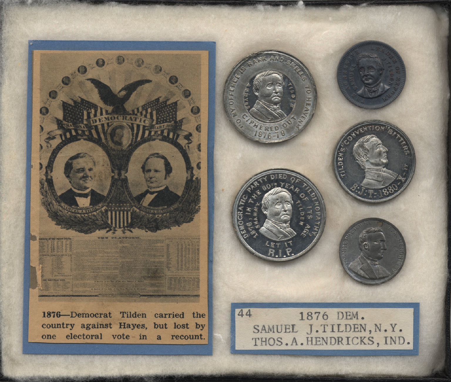 Collection: Cornell University Collection of Political Americana, Cornell University Library Repository: Susan H. Douglas Political Americana Collection, #2214 Rare & Manuscript Collections, Cornell University Library, Cornell University Title: Tilden-Hendricks Promotional and Satirical Items, ca. 1876-1880 Political Party: Democratic Election Year: 1880 Date Made: ca. 1876-1880 Measurement: Mount: 5 1/8 x 6 1/8 in.; 13.0175 x 15.5575 cm Classification: Ephemera Persistent URI: There are no known U.S. copyright restrictions on this image. The digital file is owned by the Cornell University Library which is making it freely available with the request that, when possible, the Library be credited as its source.